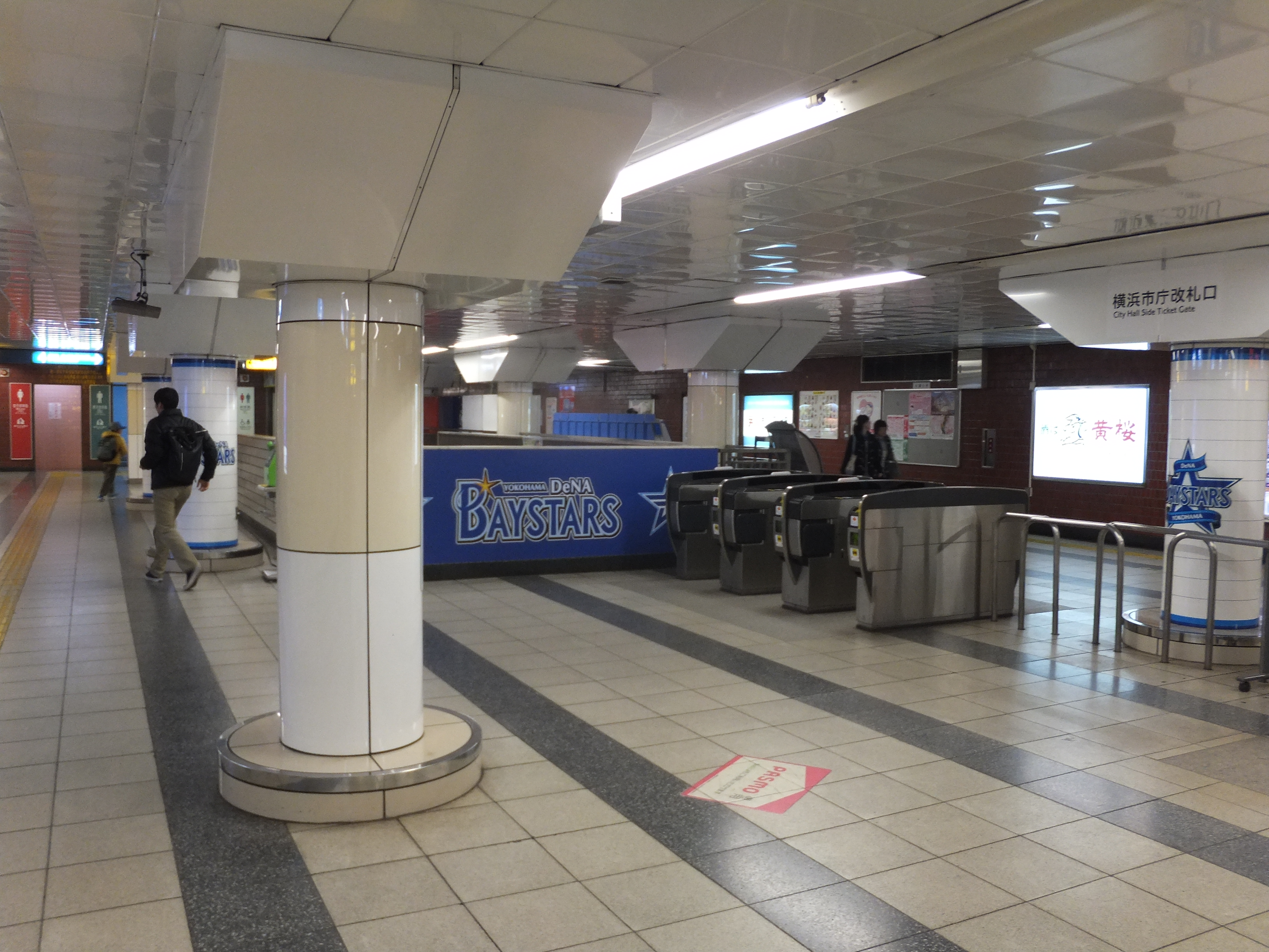 Ticket gate of Kannai Station on the Yokohama Municipal Subway Blue Line